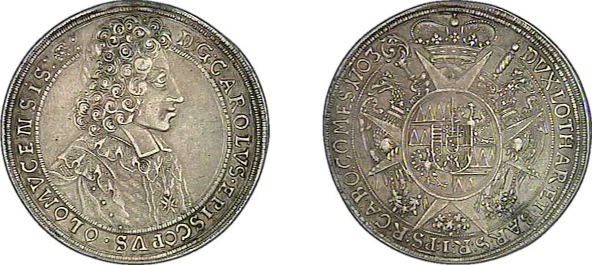 Thaler de l' Éveché d'Olmutz à l'effigie de Charles III Joseph de Lorraine, 1703